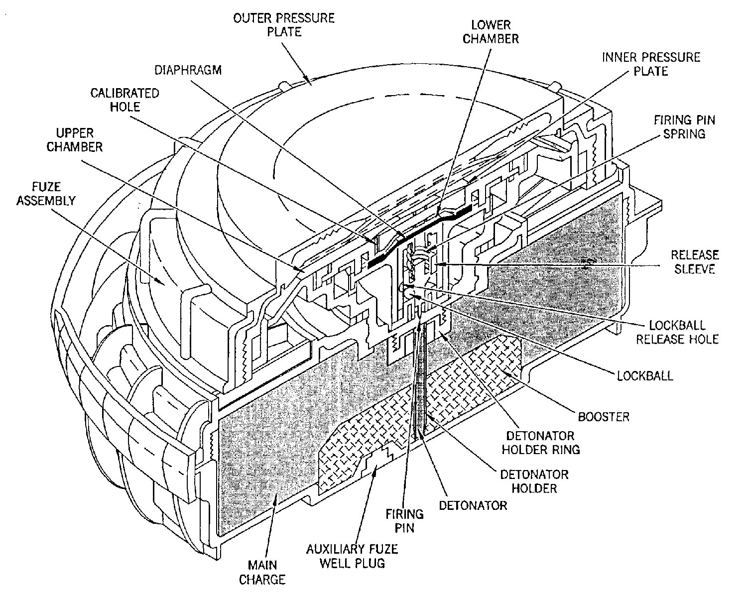 An Italian VS/2.2 anti-tank landmine - shown as a cutaway.